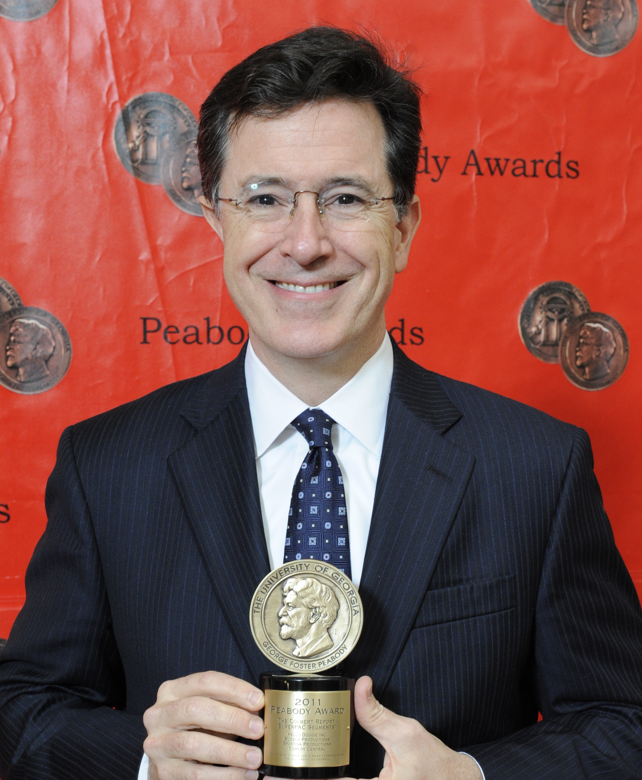 PHOTO CREDIT: ANDERS KRUSBERG / PEABODY AWARDS 71st Annual Peabody Awards Luncheon Waldorf=Astoria Hotel May 21, 2012